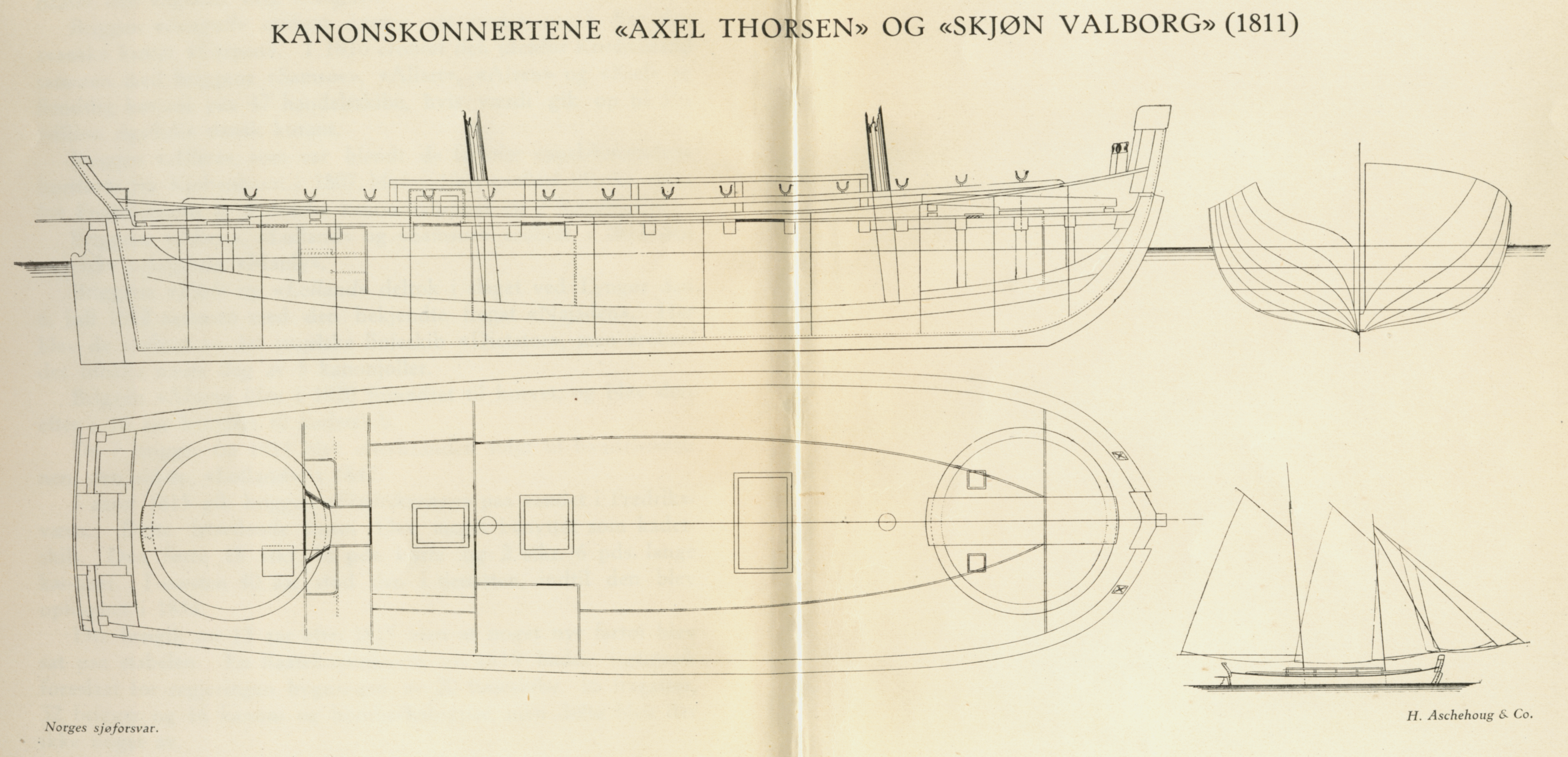 Norwegian Navy sailing schooners "Skjøn Valborg" and "Axel Thorsen", built in 1811. They were armed with two large cannons, and had a crew of 45 men.